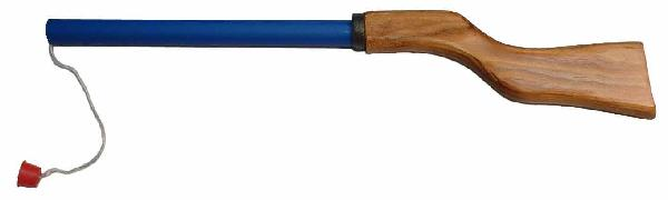 Pop Gun Cork